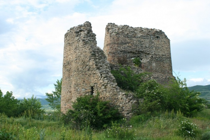 Achabeti castle in Georgia